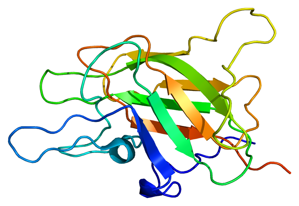 Structure of the F5 protein. Based on PyMOL rendering of PDB 1czs.